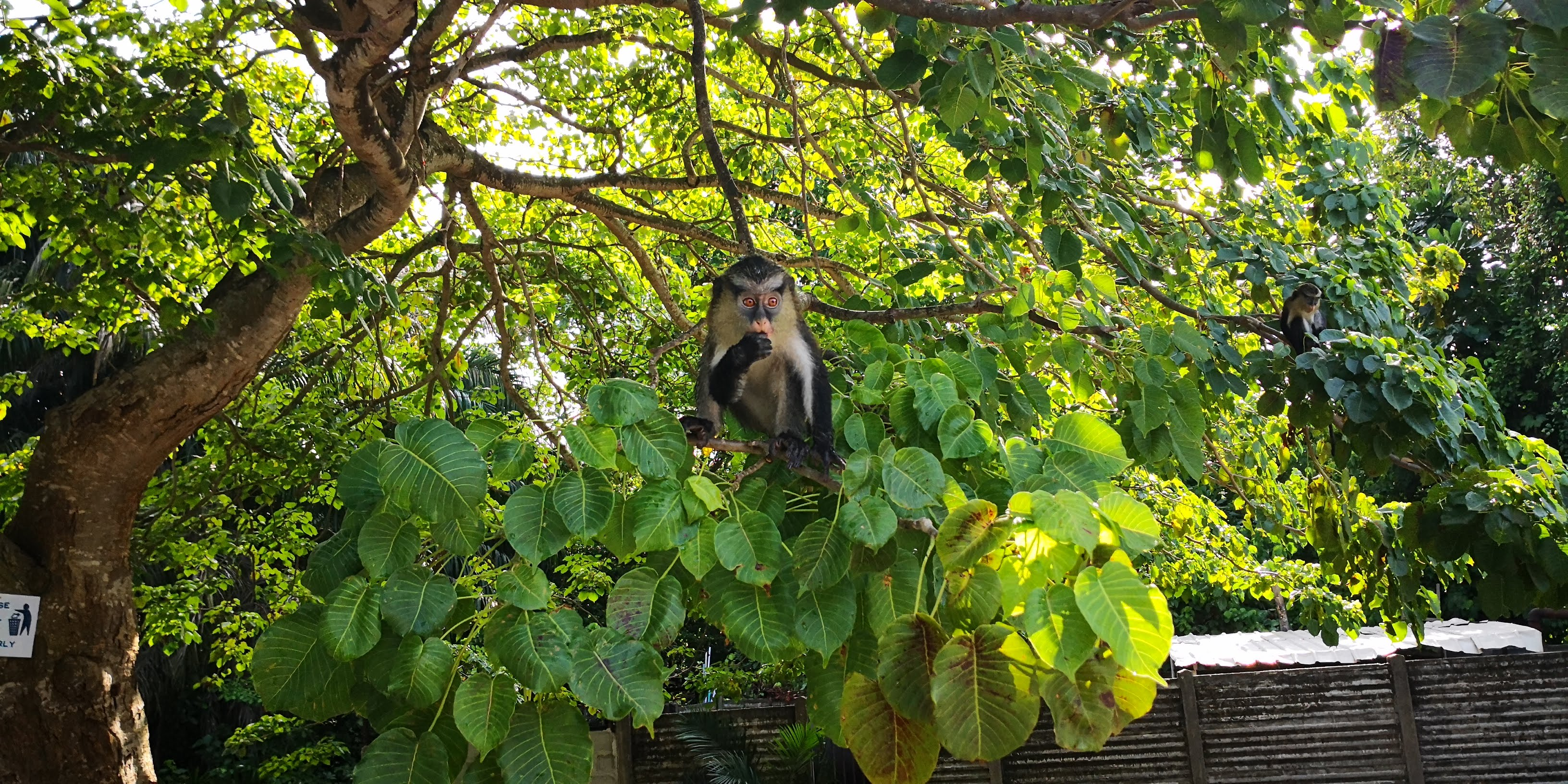 Mona Monkey at LCC Nigeria